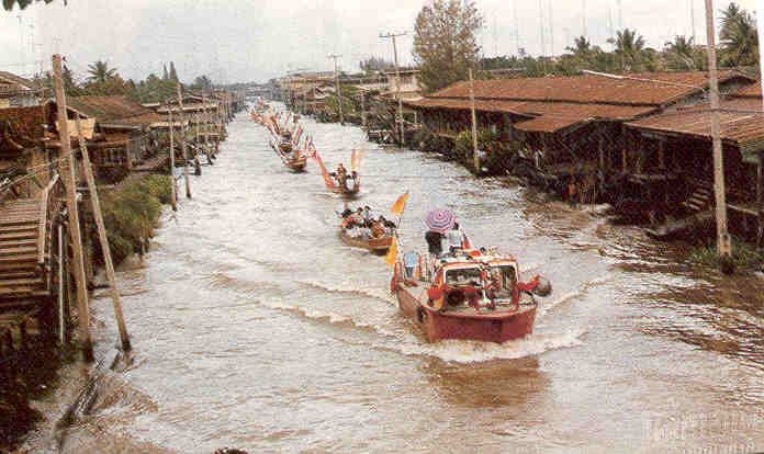 Prasatsit Temple